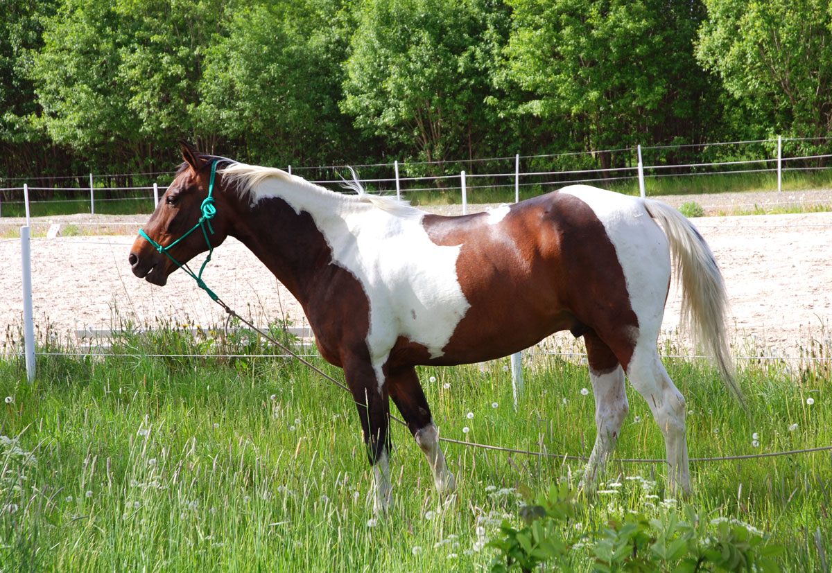 Pretty horse In Farm